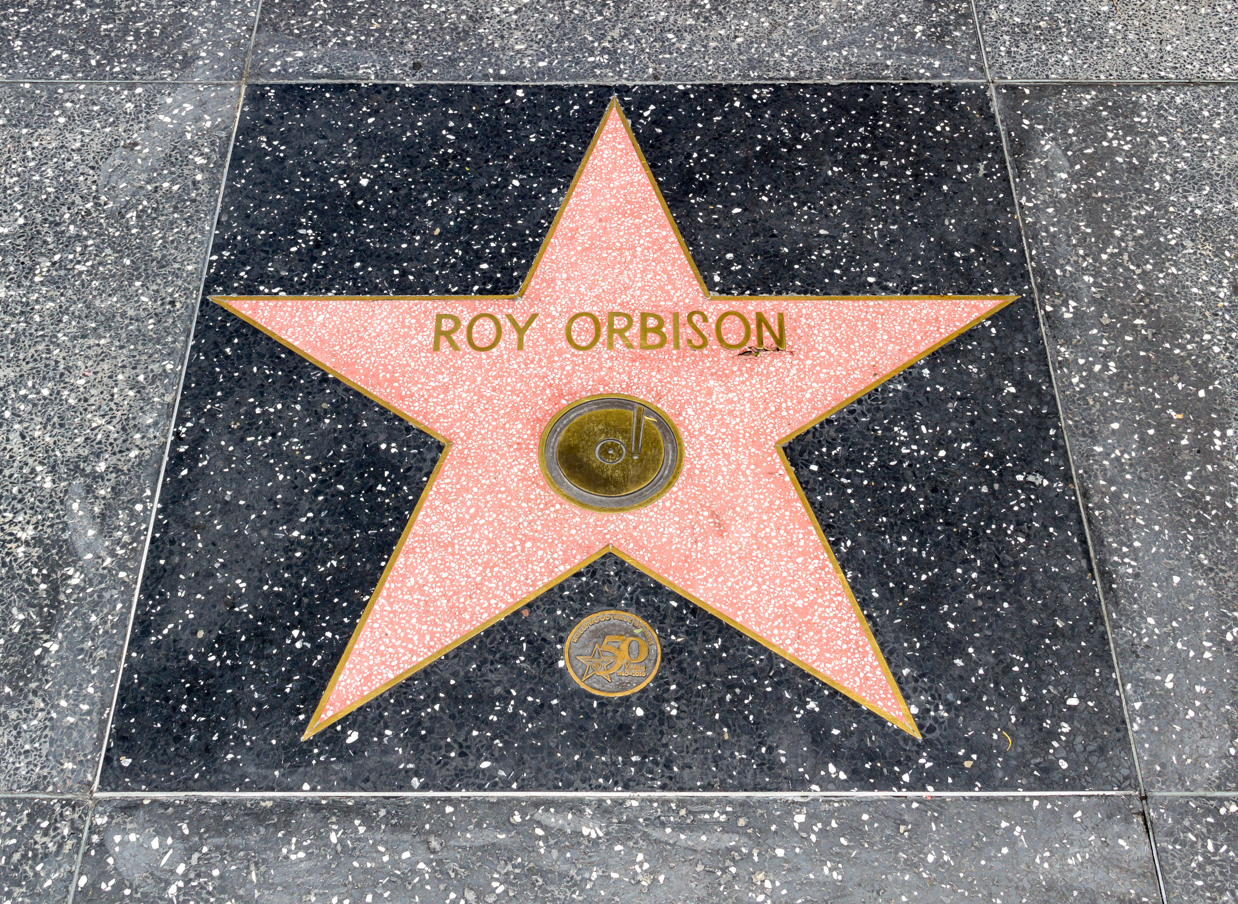 Star “Roy Orbison” at the Hollywood Boulevard in Los Angeles, California, USA